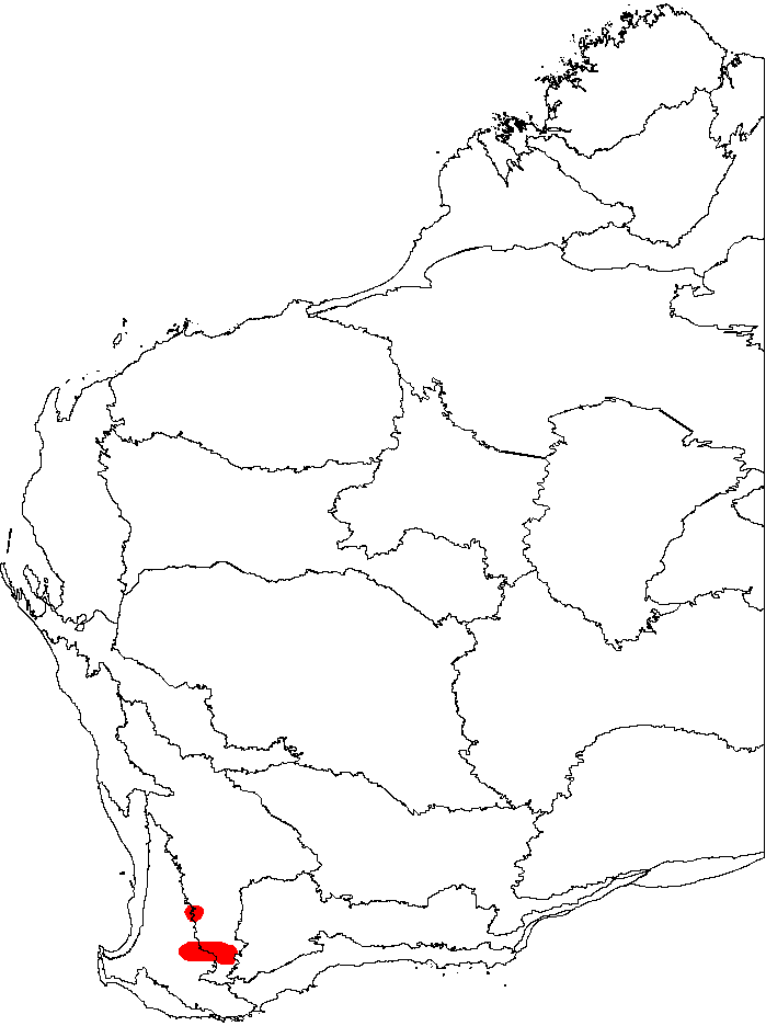 This is a map of Western Australia, showing the distribution of Banksia acanthopoda superimposed on a background of the IBRA 6.1 biogeographic regions.